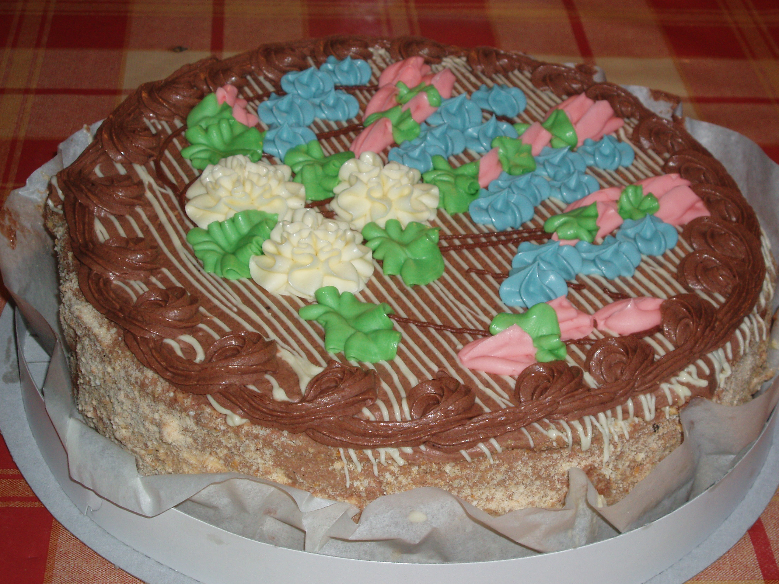 Kiev cake